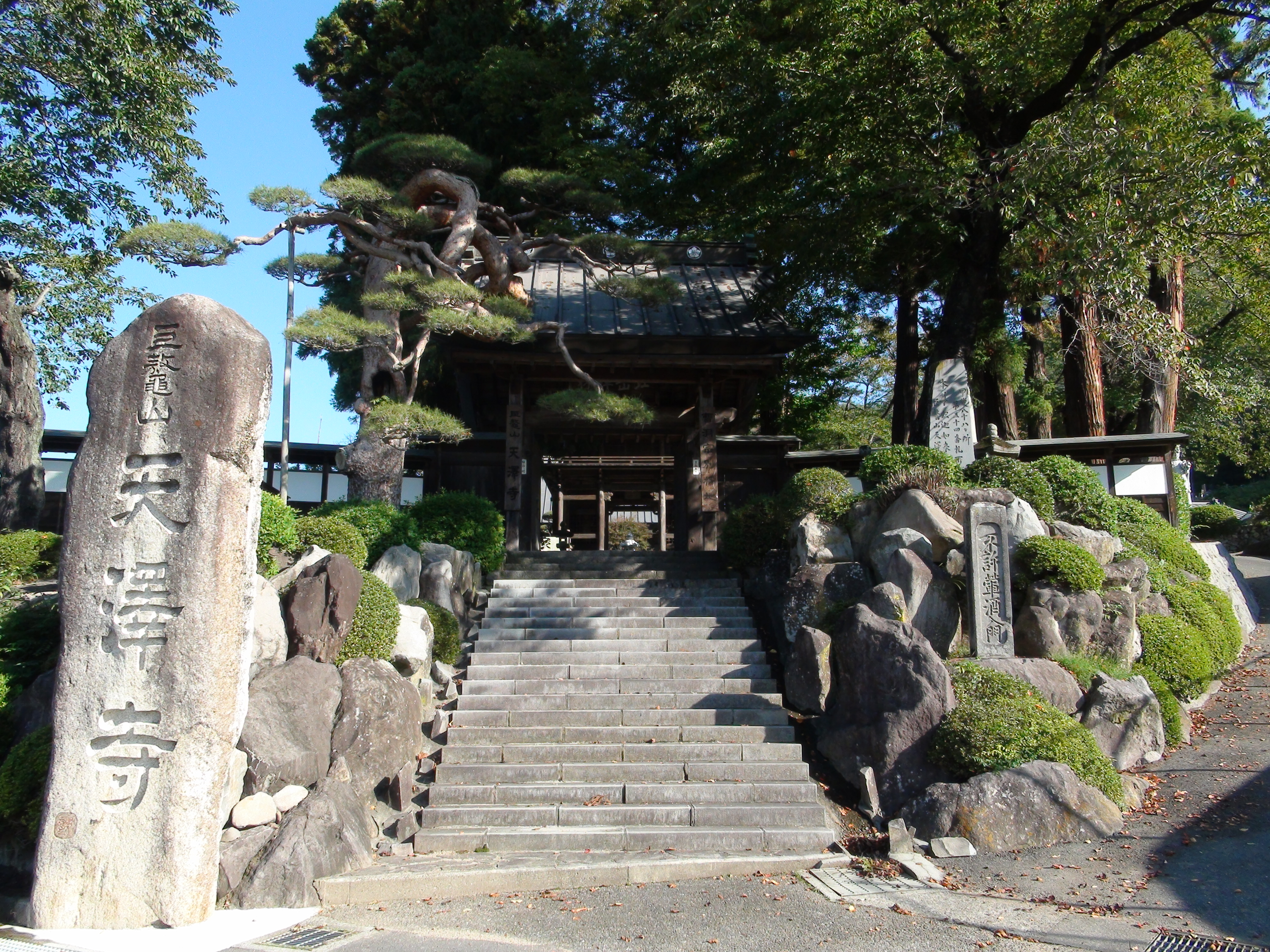 Front of Tentaku-ji Temple